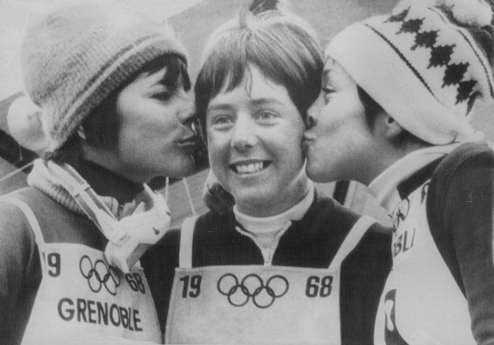 LG11 1968 Wire Photo NANCY GREENE ANNIE FAMOSE BOCHATAY Grenoble Olympics Kiss